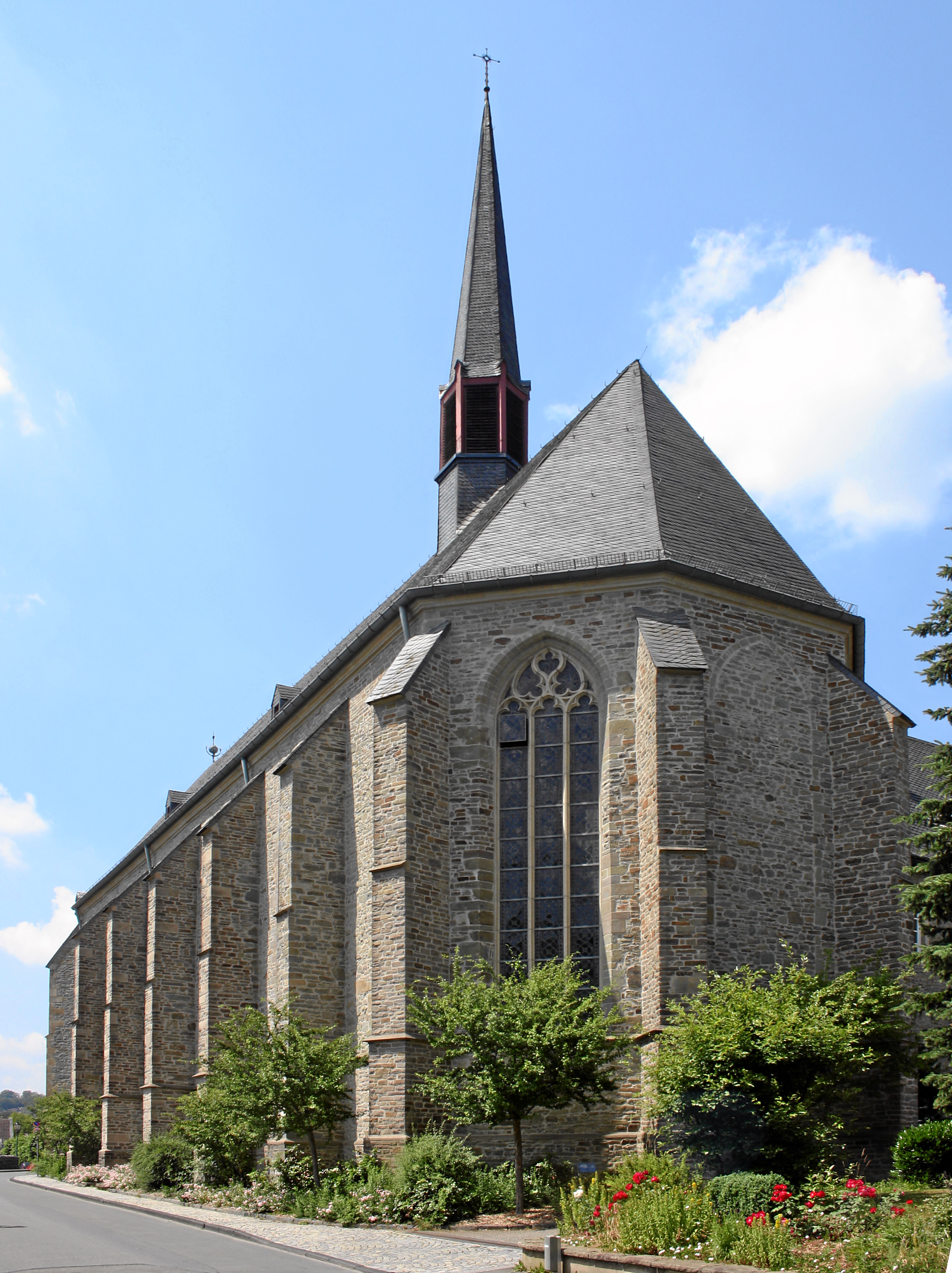 Wuppertal-Beyenburg, Germany. Roman catholic church Saint Mary Magdalene, exterior from East.